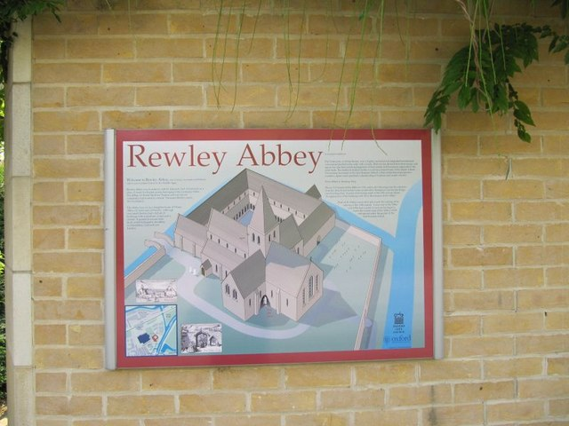 Named after Rewley Road named after the abbey that once stood round here. All I can find out on the place is in the link.